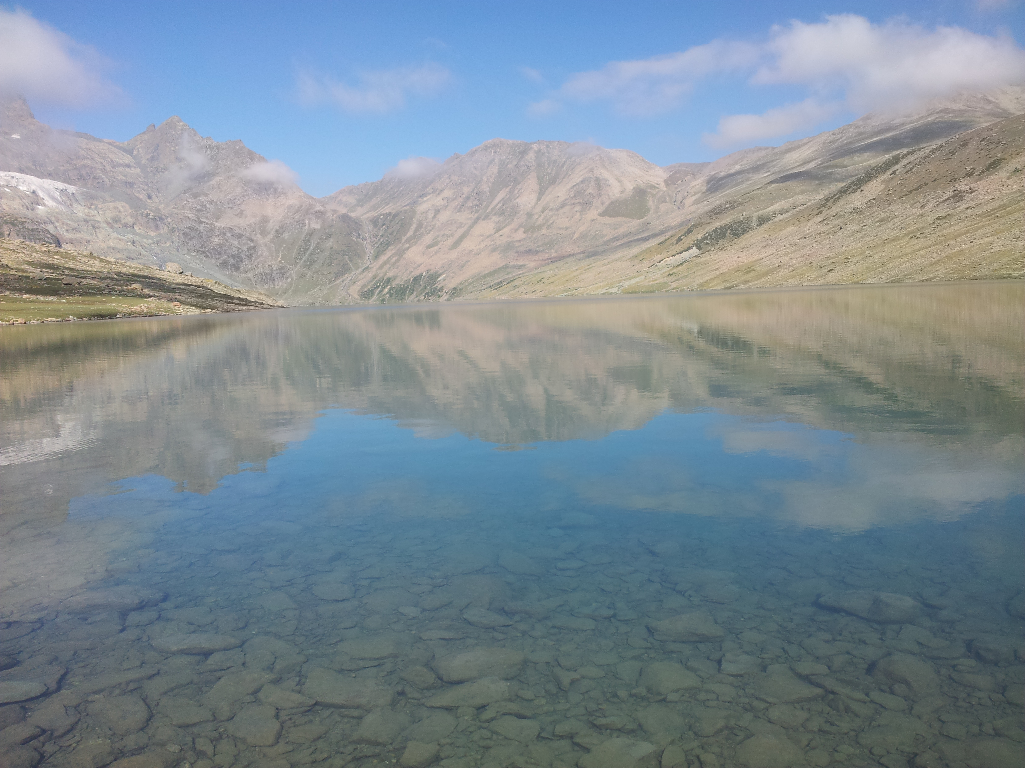 Gangabal Lake (taken by my friend Shaheen Sal Sal)